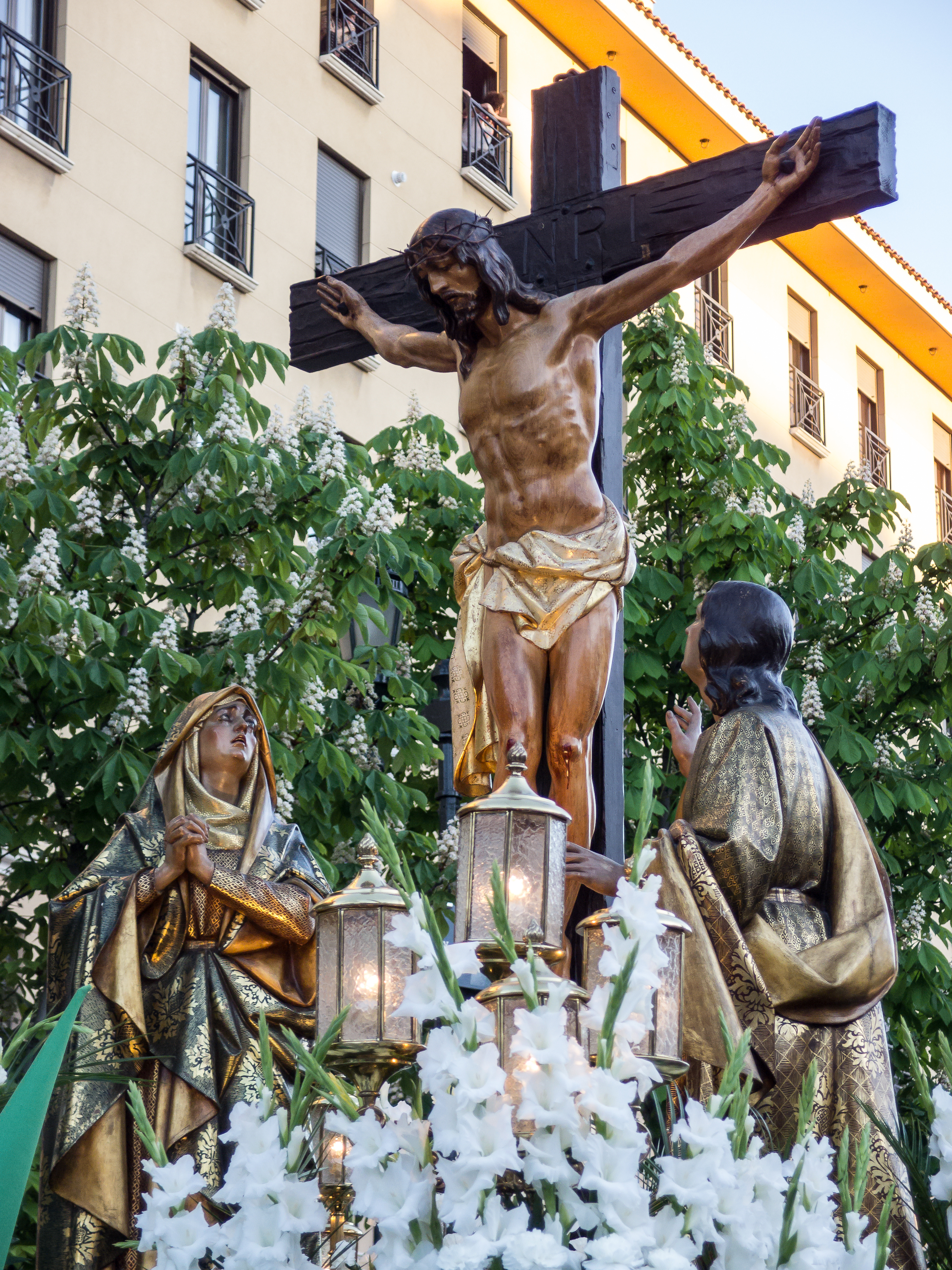 OLYMPUS DIGITAL CAMERA This is a photography of a Folklore festival in Spain (Wikidata id Q9075892).